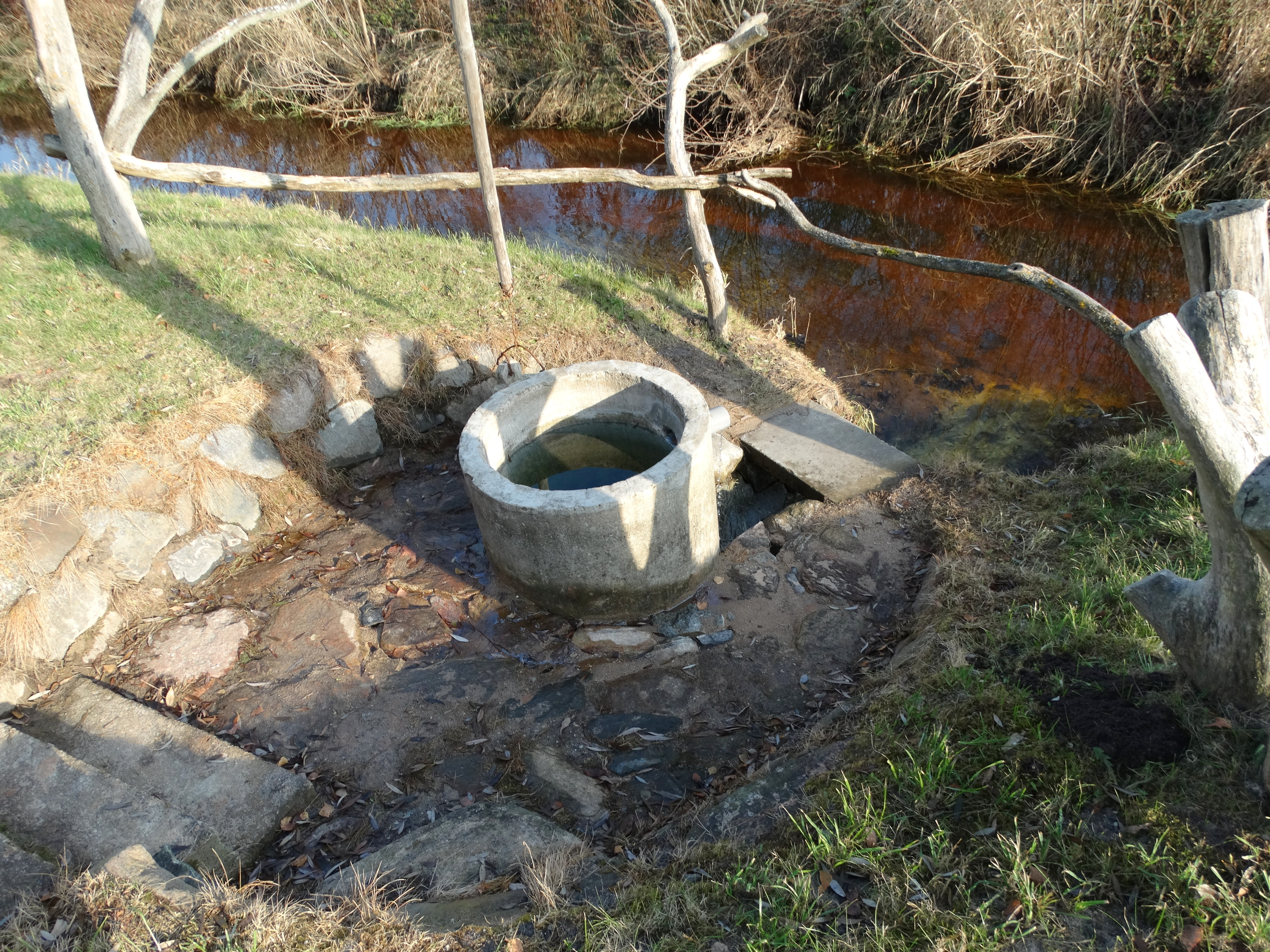 Baltasis Spring, Pasvalys District, Lithuania